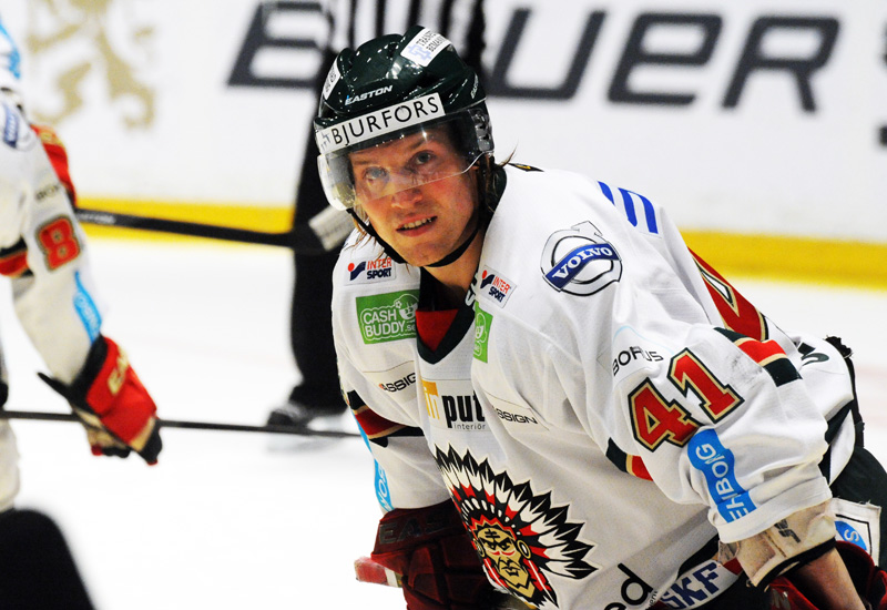 Ice hockey player Mathis Olimb in 2013.